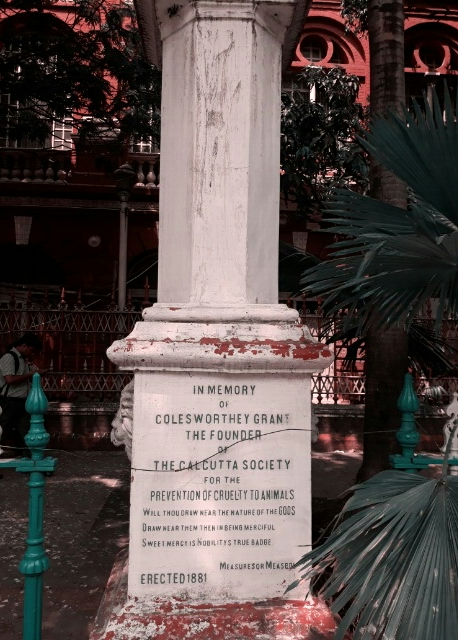 Pillar in memory of Colesworthey. kolkata